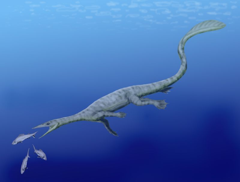 Endennasaurus acutirostris, a thalattosaur from the Upper Triassic of Italy, digital work